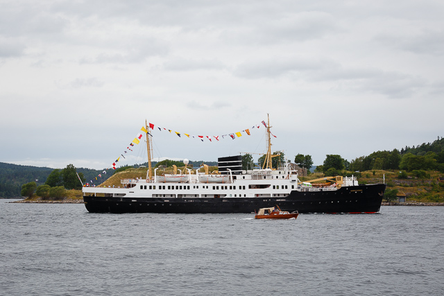 Ships participating in Kyststevnet 2014 in Oslo, Norway